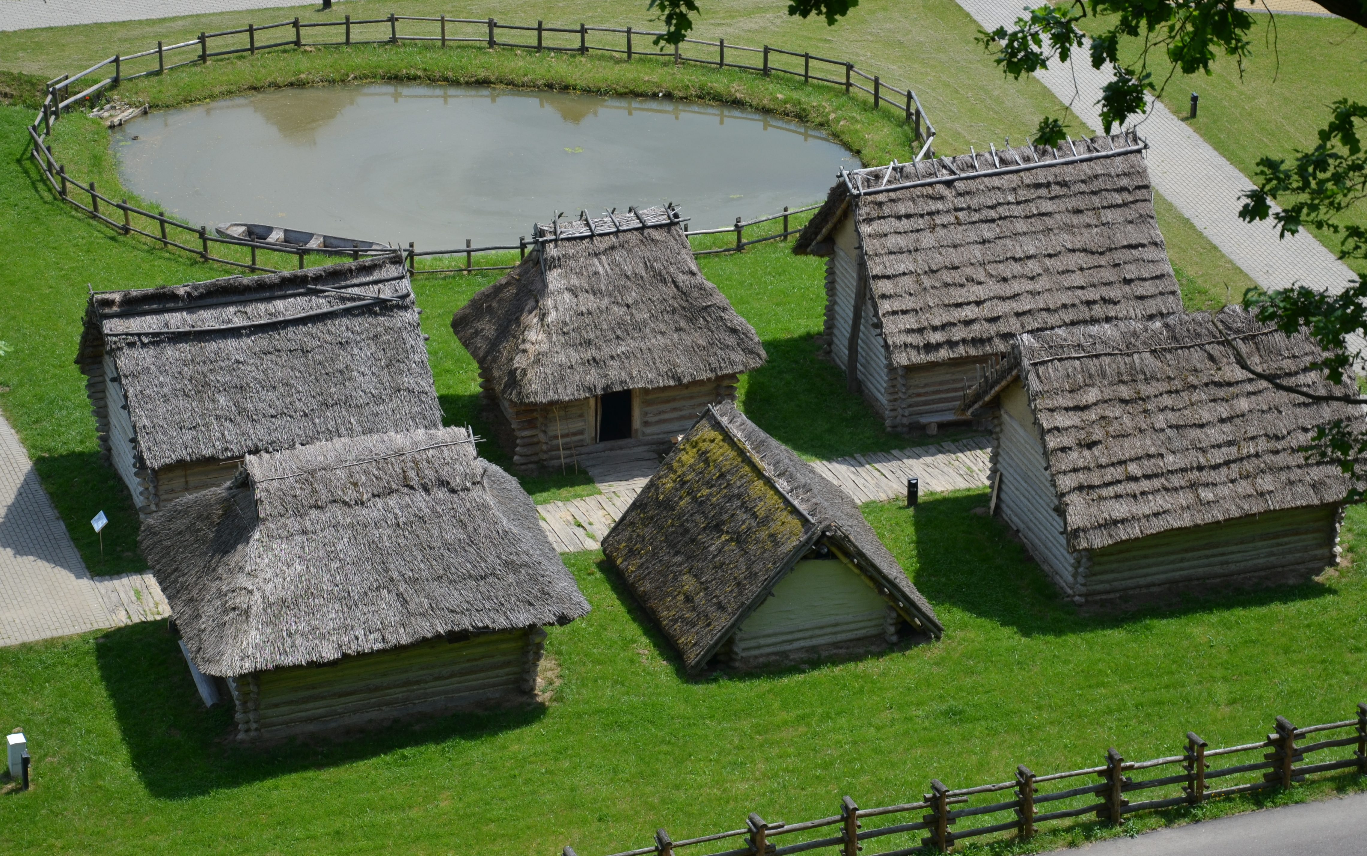 Archäologischer Park "Karpatische Troja", Trzcinica